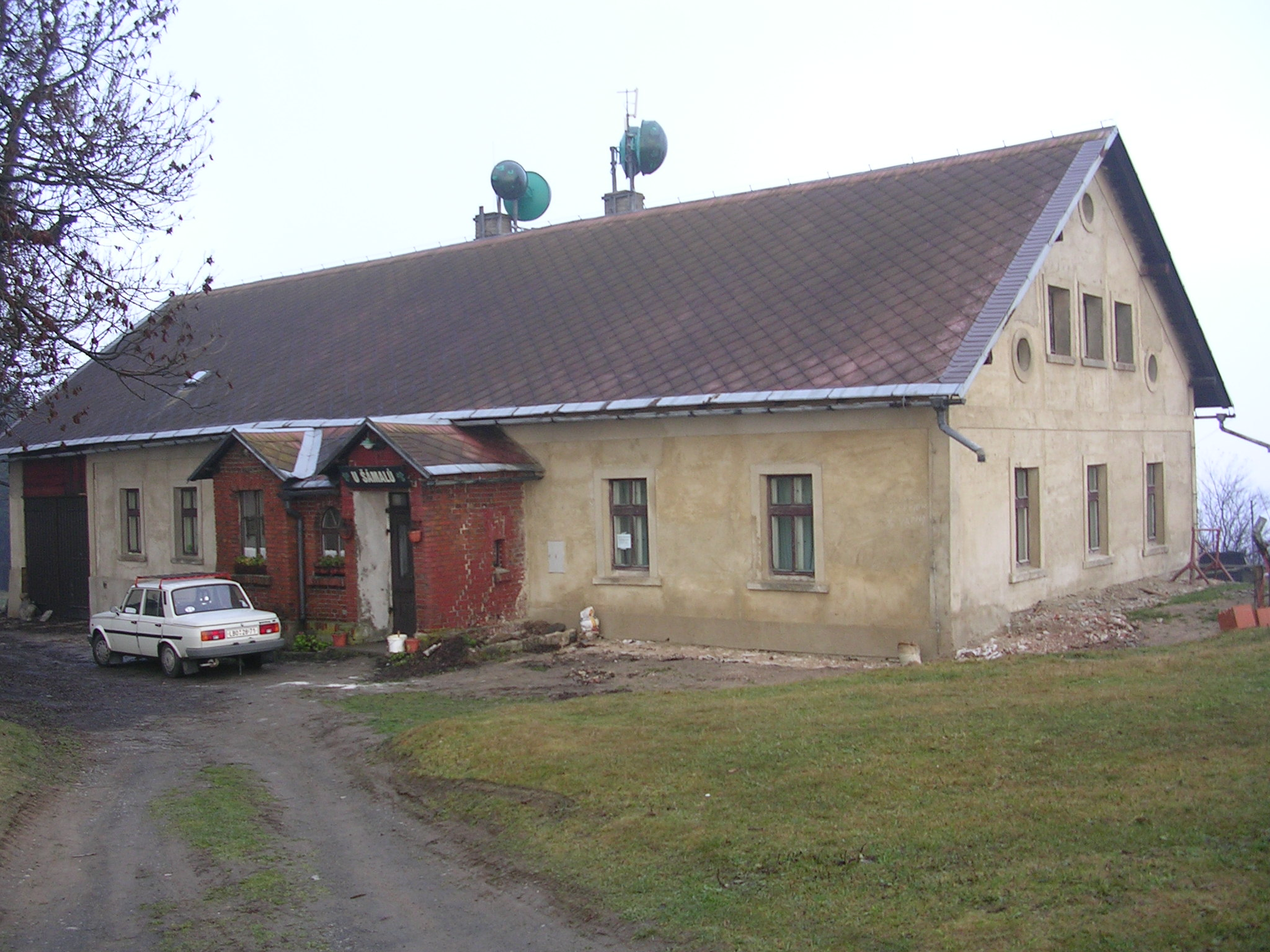 U Šámalů pub, area of municipality Proseč pod Ještědem, the Czech Republic.